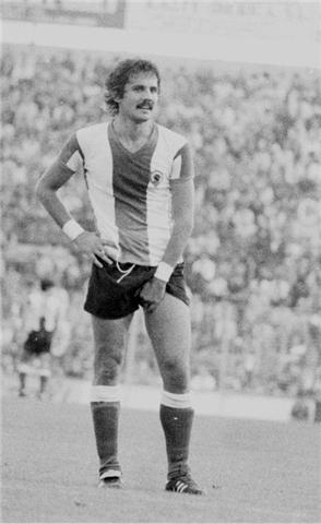 Kustudic Miodrag playing a football match